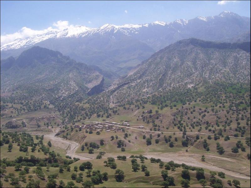 Shadegan + Mountains